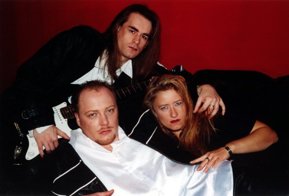 Picture of the German Gothic Rock Band CAIN.